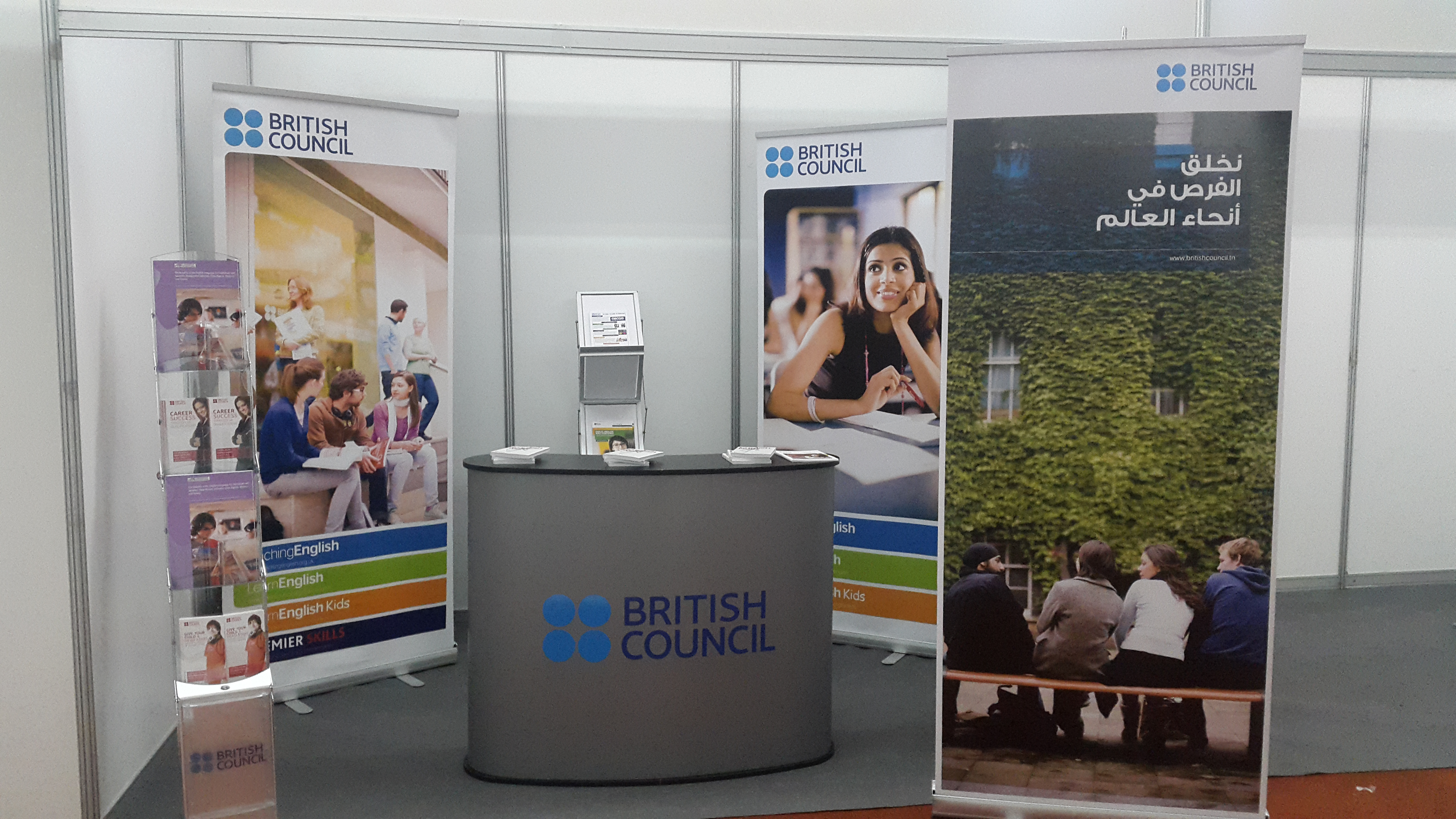 British Council Tunisia Stall in the 3rd edition of languages fair in Tunis "ExpoLugha"